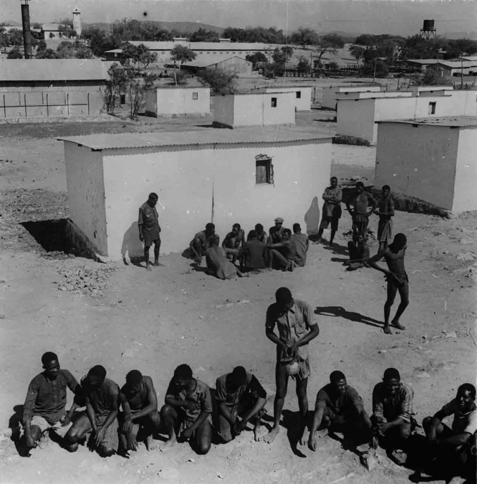 Black mine workers in Tsumeb after day shift, Namibia; around 1920s